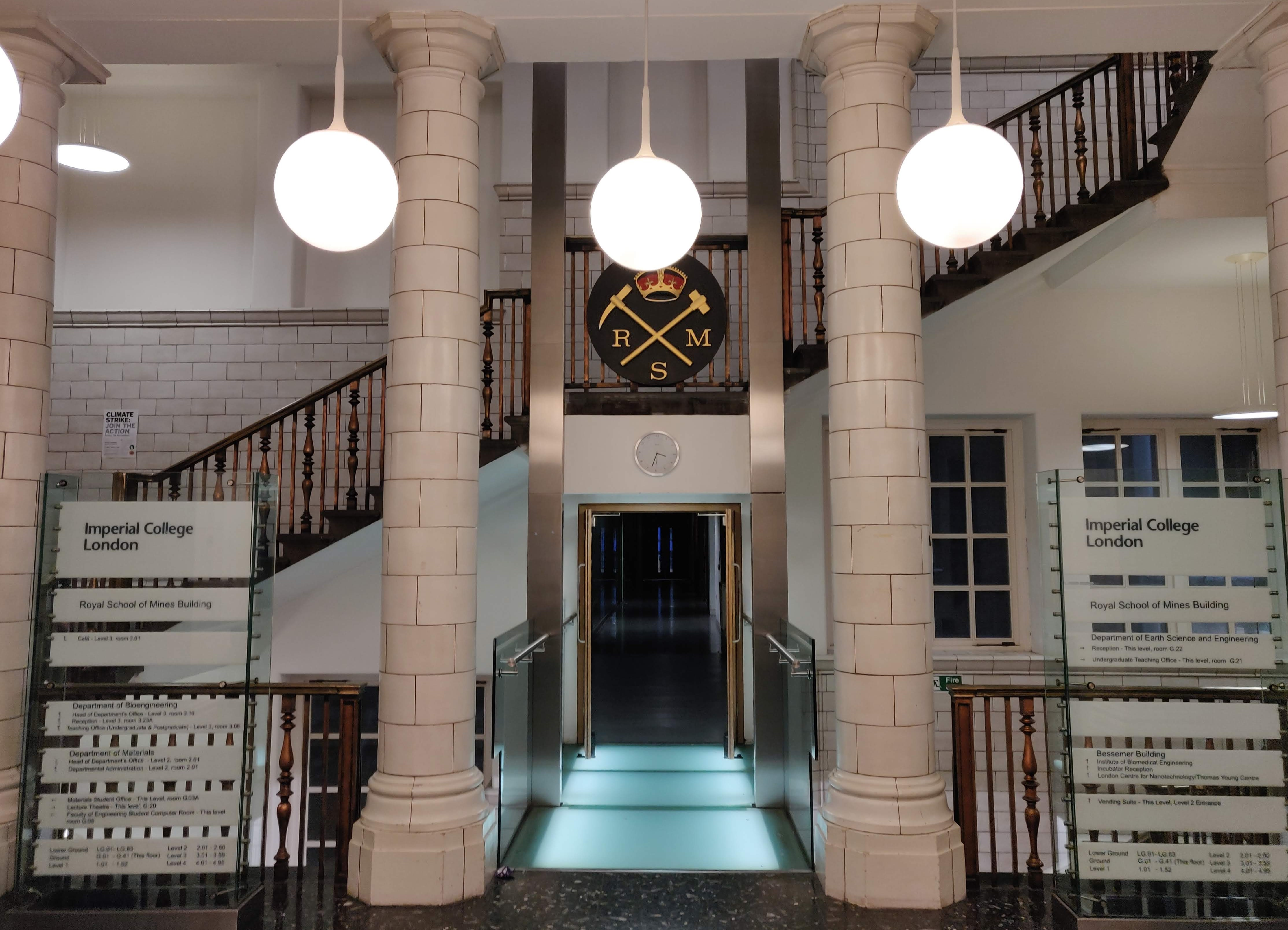 The Royal School of Mines is one of the more historic buildings of Imperial College, with its original interior design mostly preserved (although modern facilities and signage are present, as pictured) The main lobby is off Prince Consort Road, accessible through the well-known entrance.